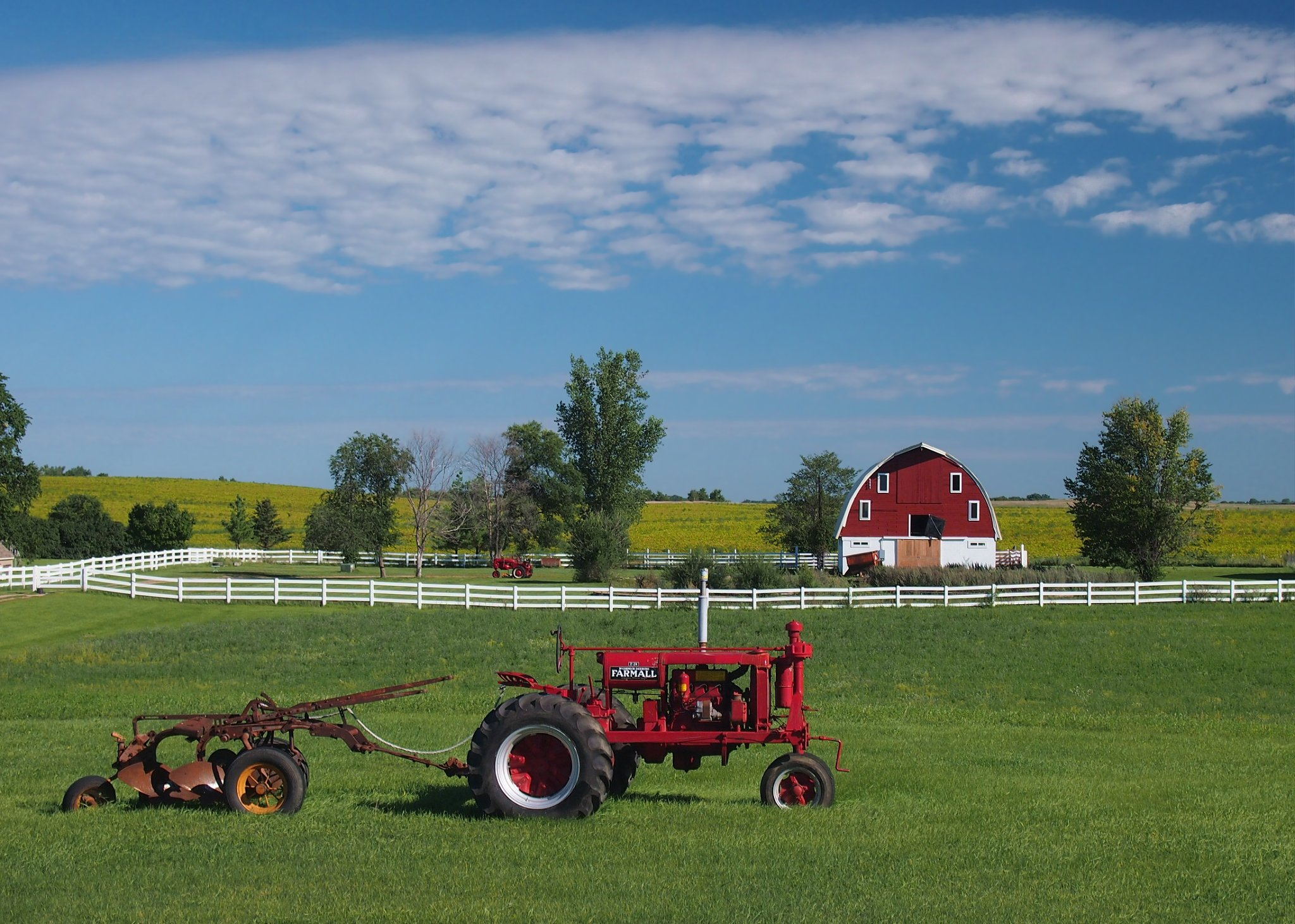 Farm on Minnesota State Highway 104, Chippewa Falls Township, Minnesota, USA. Viewed from the south.